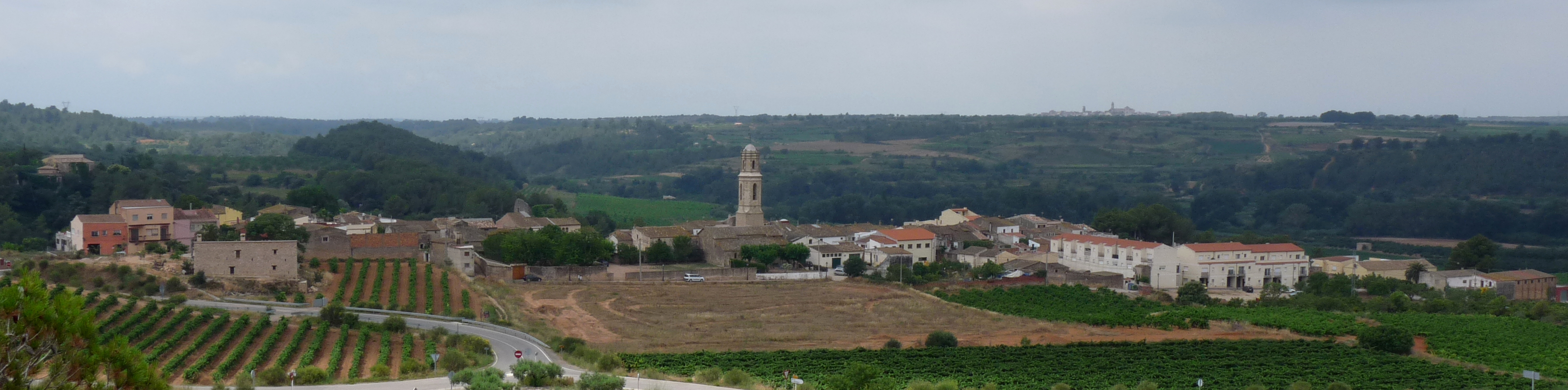 Montferri